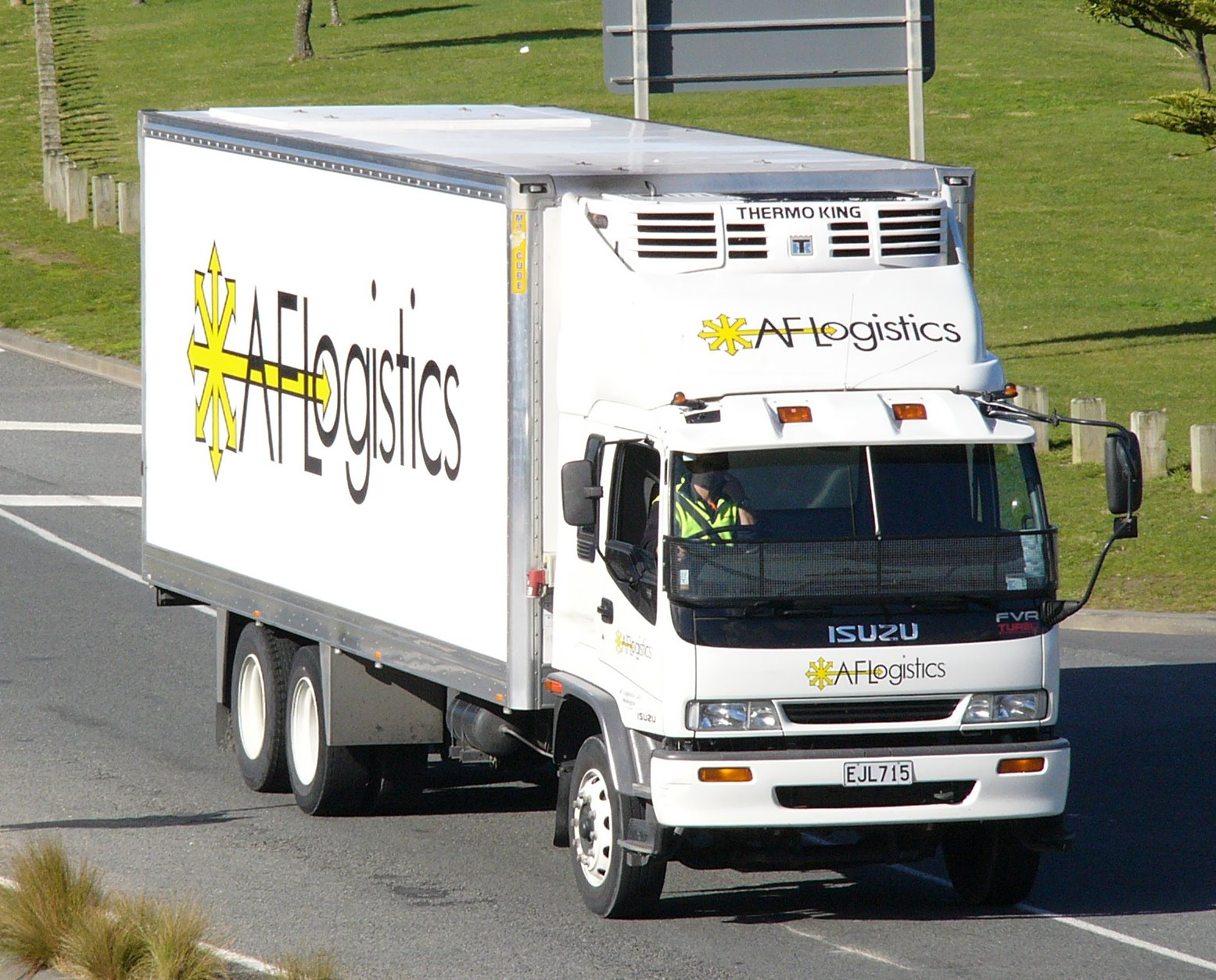 New Zealand Trucks